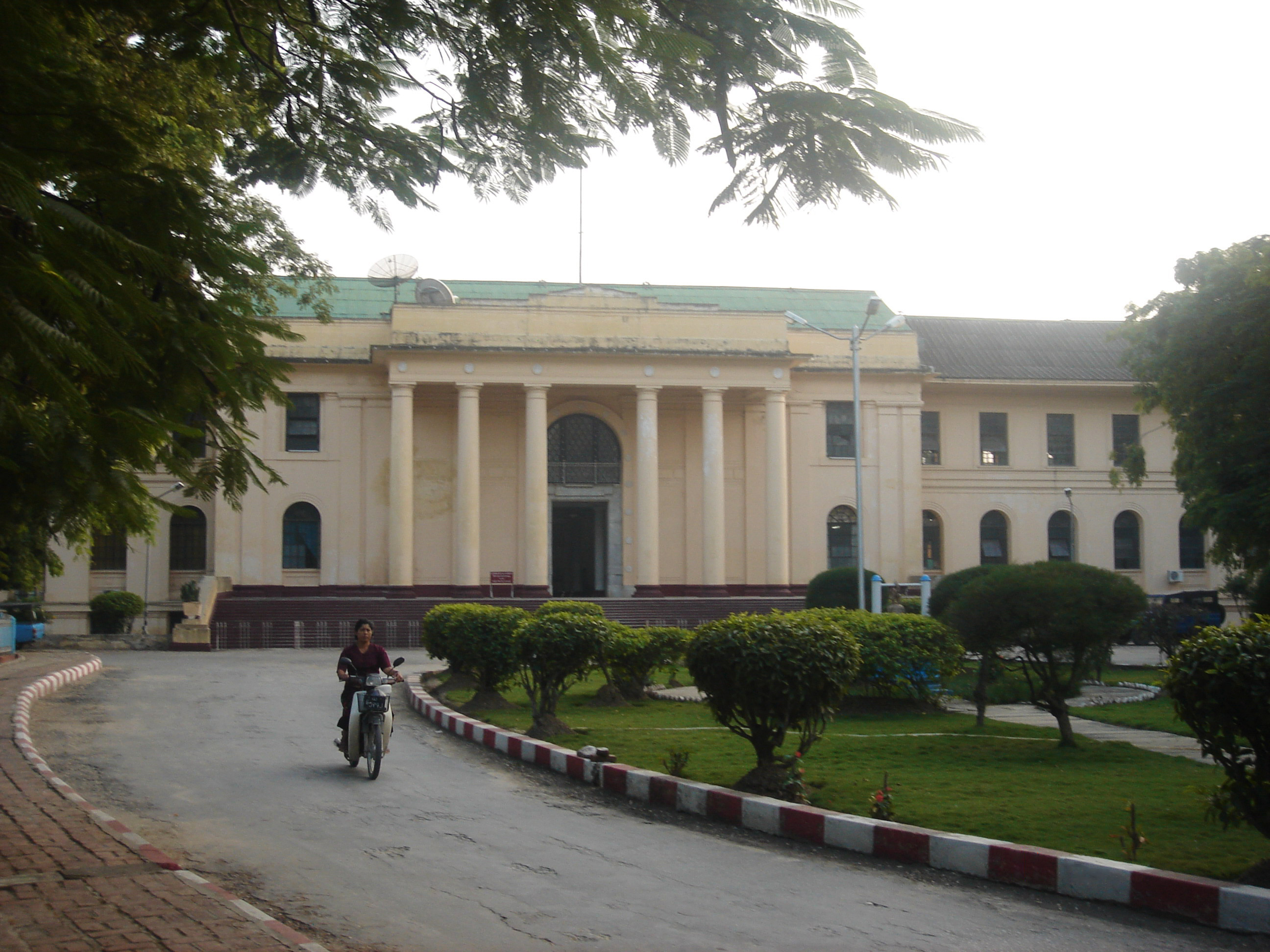 Photo of main building of the University of Mandalay.